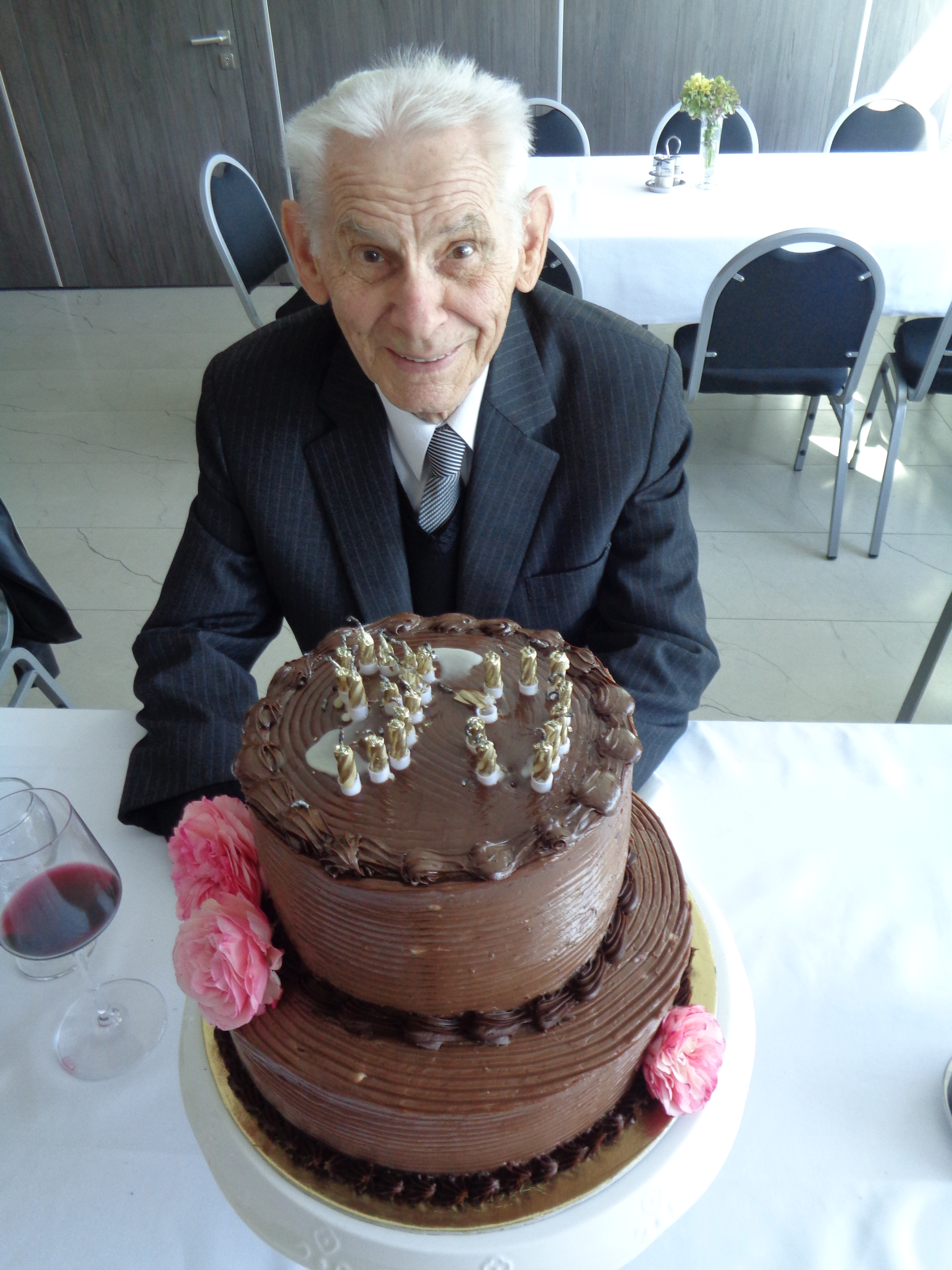 A old men to celebrate his 90th birthday with his birthday cake in nursing home in Croatia